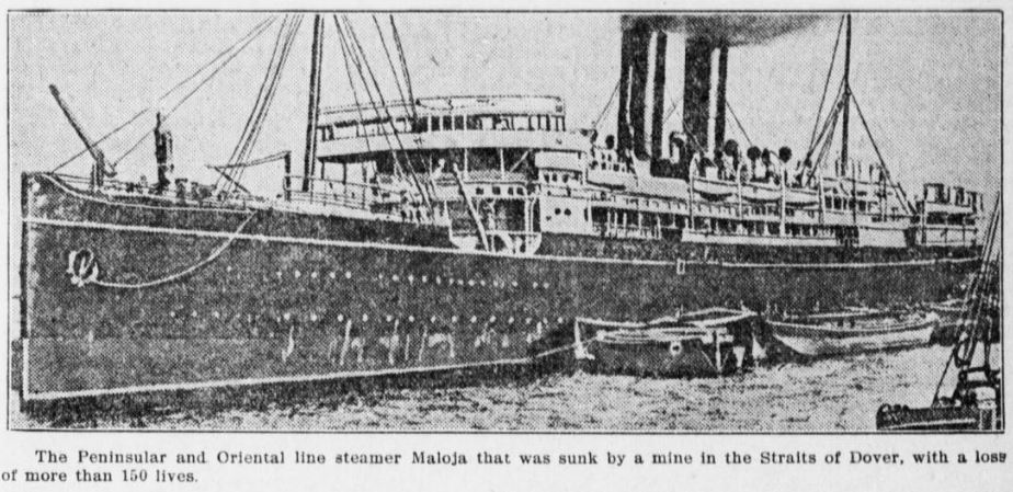 The Peninsula and Oriental line steamer Maloja that was sunk by a mine in the Straits of Dover, with a loss of more than 150 lives.